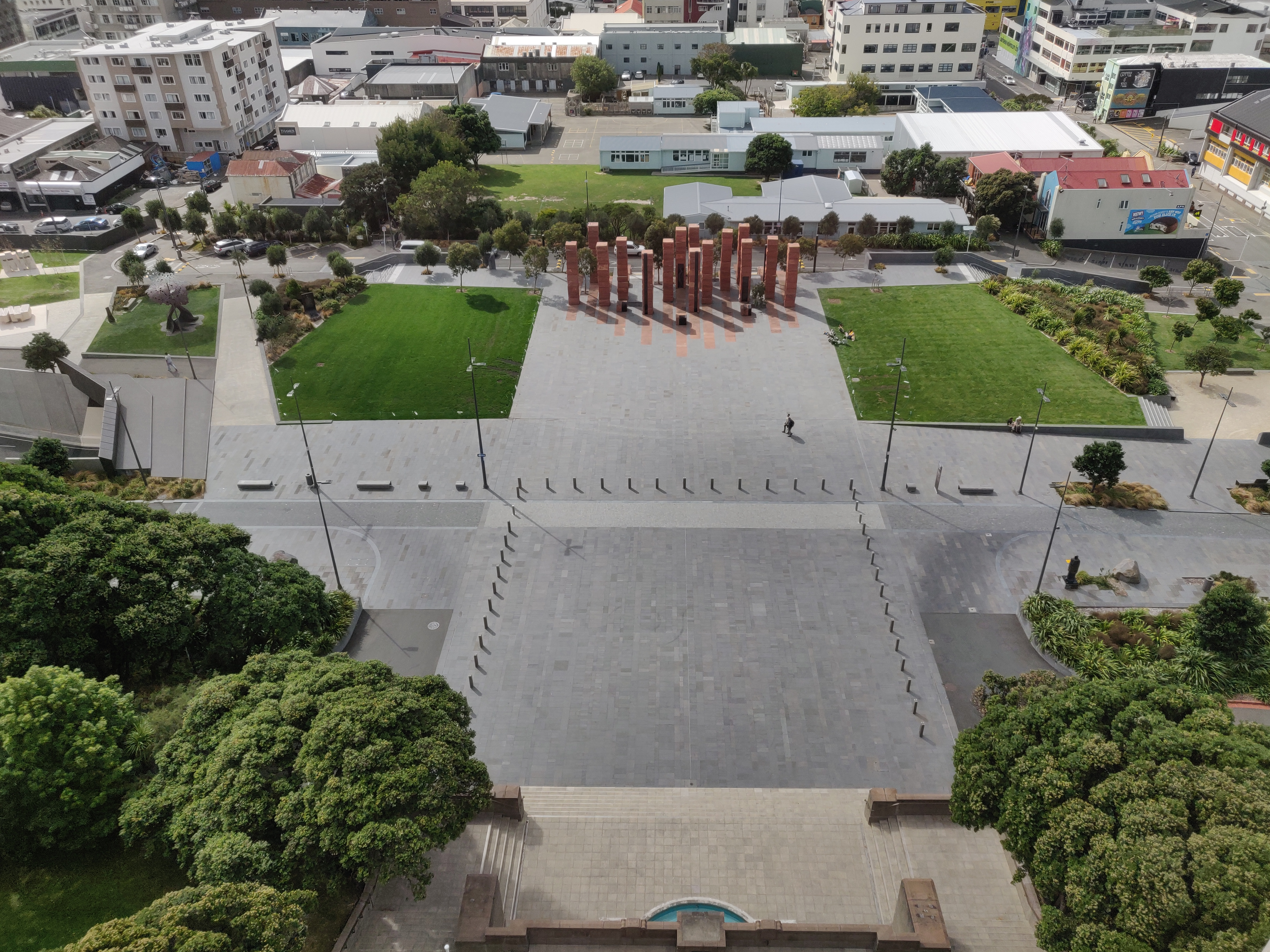 View North from the Wellington Carillon.